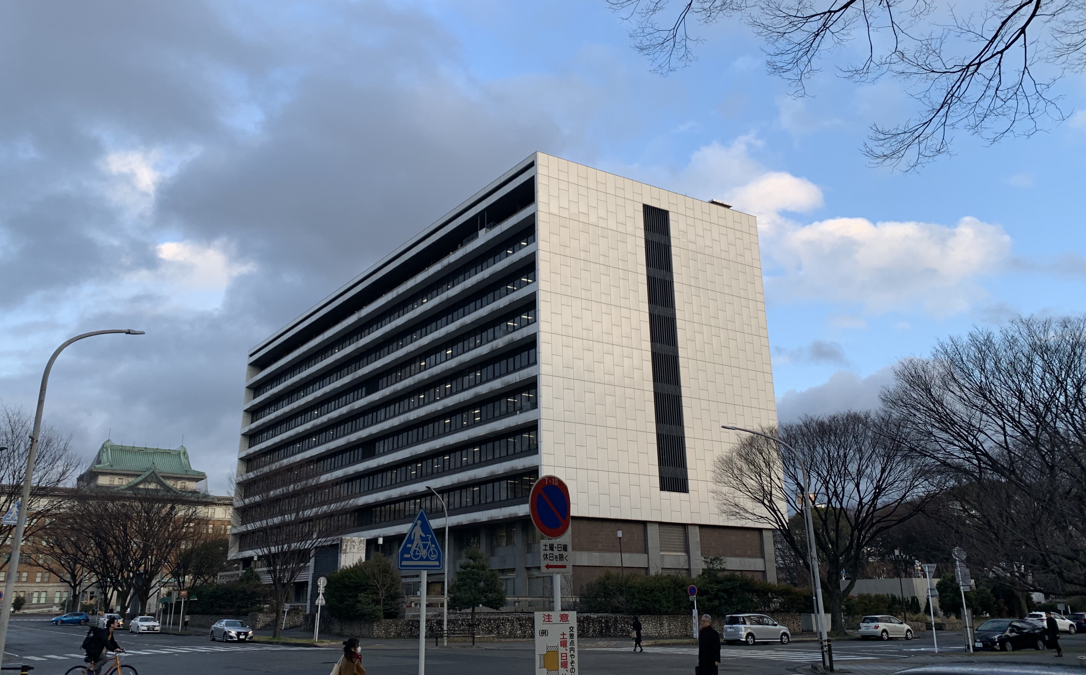 2020年2月10日16:53